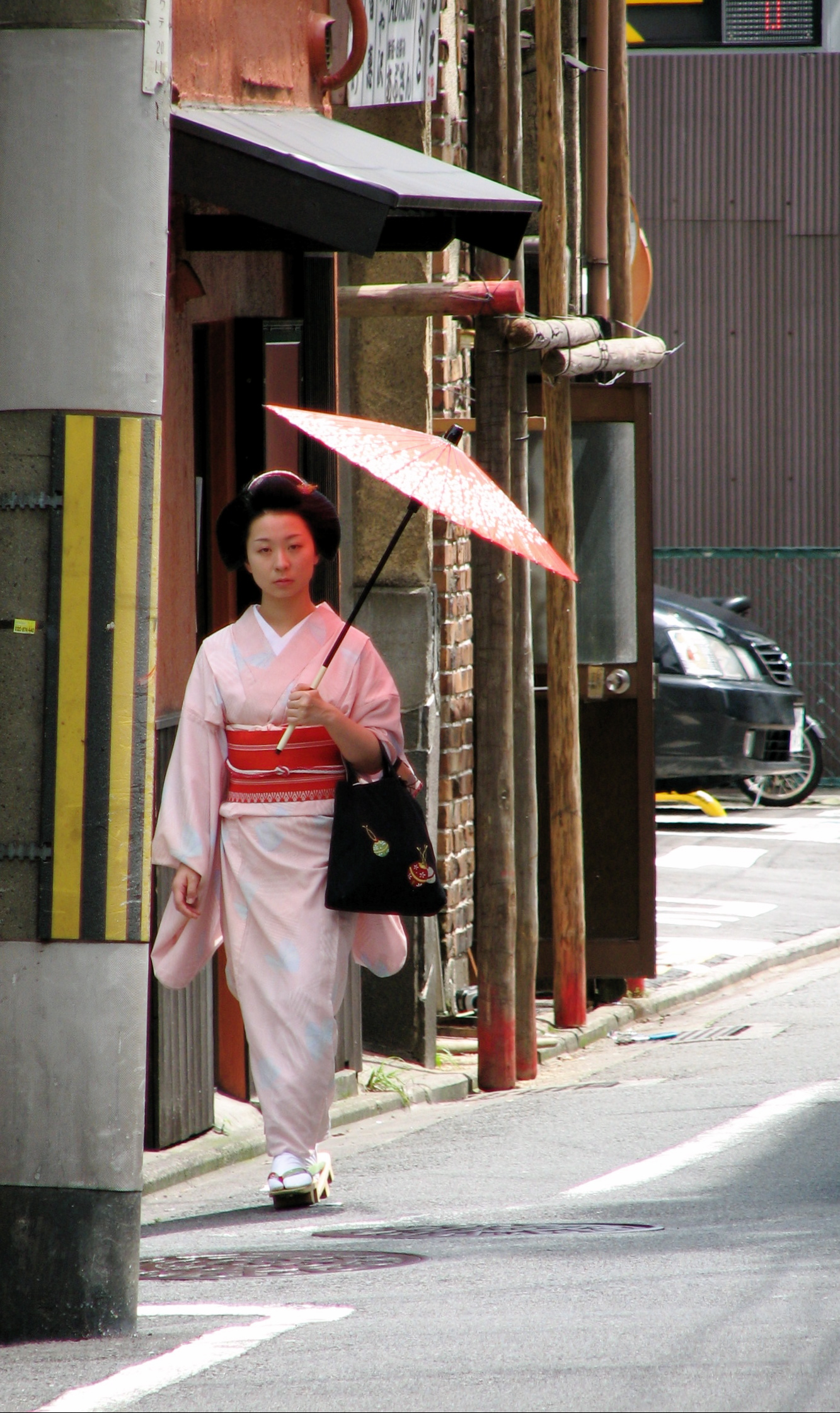 The maiko Mameyuri off duty, without makeup and work kimono but wearing the maiko hairstyle